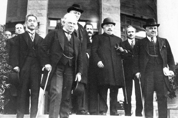 Delegates to the San Remo conference in Italy, 25 April 1920